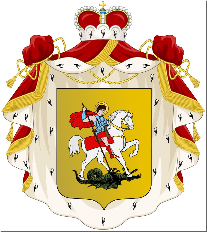 Khimshiashvili Family Coat Of Arm